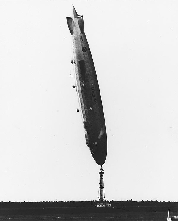 USS Los Angeles (ZR-3): In a near-vertical position, moored at the high mast at Naval Air Station Lakehurst, after her tail rose into colder air, causing a marked increase in lift, shortly after 1:30 PM on 25 August 1927. Original description: USS Los Angeles (ZR-3) in a near-vertical position, after her tail rose out-of-control while she was moored at the high mast at Naval Air Station Lakehurst, New Jersey, shortly after 1:30 PM on 25 August 1927. A gust of wind raised the tail into colder air causing a sudden increase in lift which was not controllable. Los Angeles suffered only minor damage, but the affair demonstrated the risks involved with high mooring masts. (Courtesy of Richard K. Smith, author of the book "The Airships Akron & Macon", 1974.)